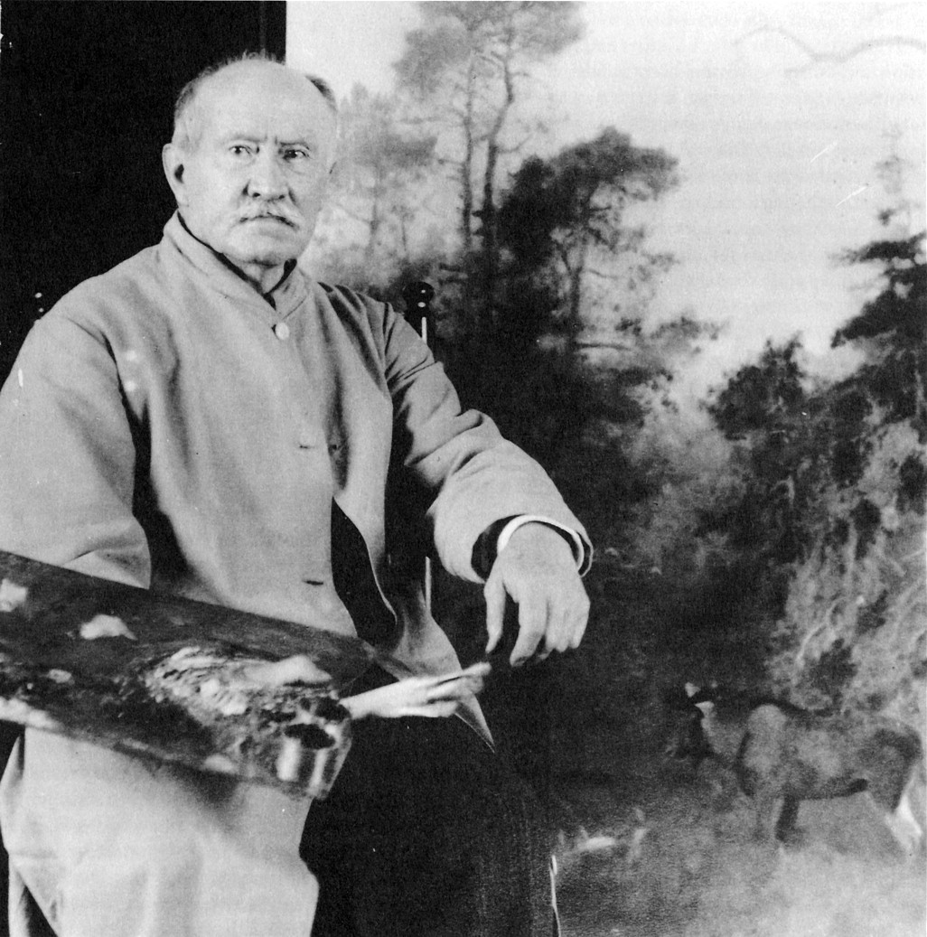 Photo of Swedish artist Bruno Liljefors at work in his studio at Österby